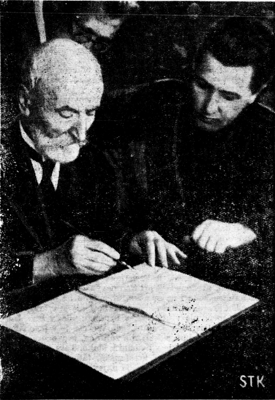 Jozef Škultéty (left) with Alexander Mach (right) and J. Cíger-Hronsky (in background, not visible). Škultéty is signing paperwork to join the Hlinka Guard as honorary member.